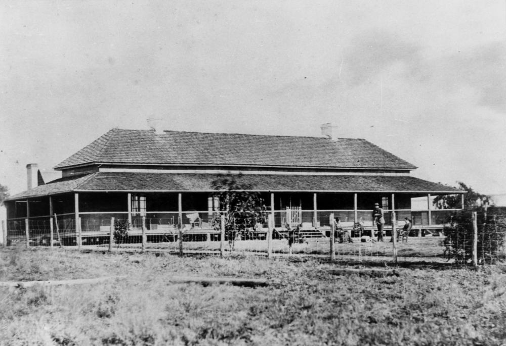 Family on the lawn at Aramac Station, ca. 1877.